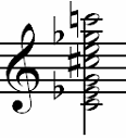 Chord with altered tones (pitch) notation: Ziga 18:36, 13 February 2007 (UTC)